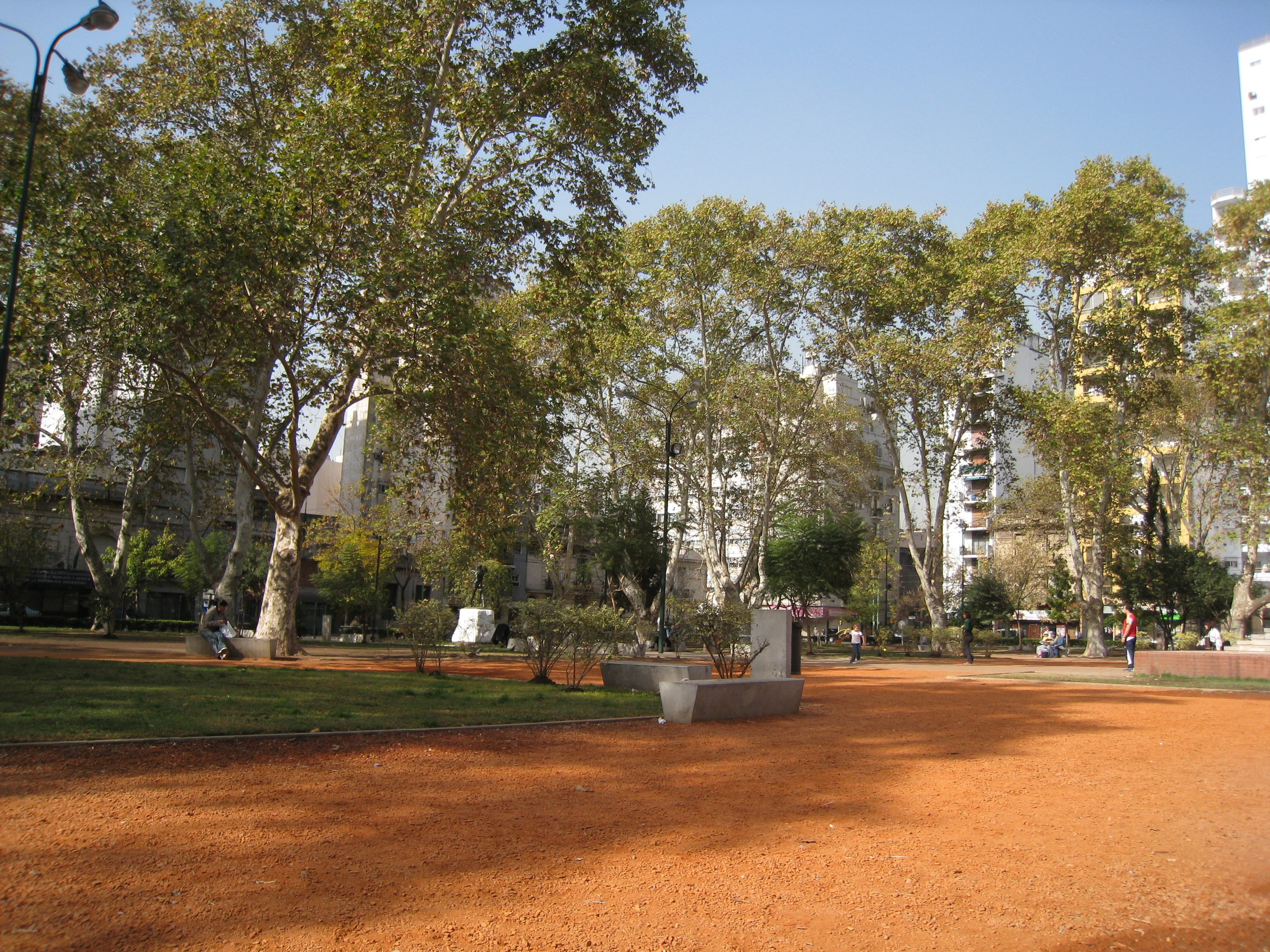 Plaza Primero de Mayo (May 1st Square), in the Balvanera section of Buenos Aires.